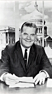 James A. Burke, US Representative from Massachusetts